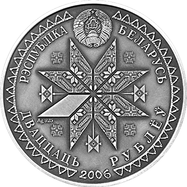 "Siomucha", Silver commemorative coins, denomination: 20 rubles